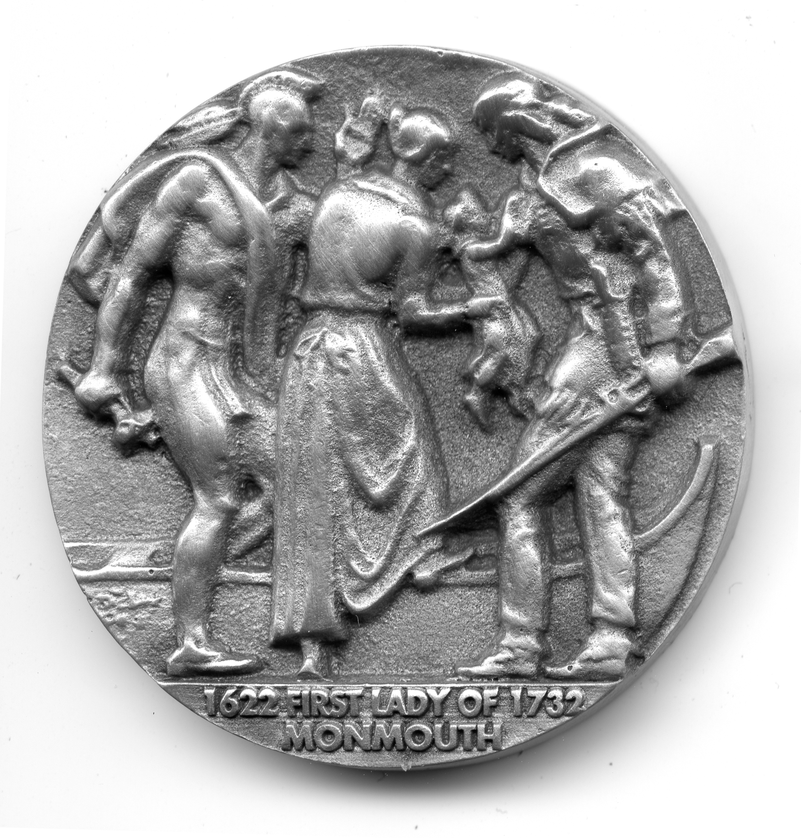 Penelope VanPrincis Stout Commemorative Coin - Verso - depicting the scene of Penelope's second rescue by an old indian chief after surviving her first series of ordeals, and finally "rescued" to Fort Amsterdam, Penelope and her new husband return to Sandy Hook to build a home. Here the old indian chief warns Penelope to escape a planned attack.